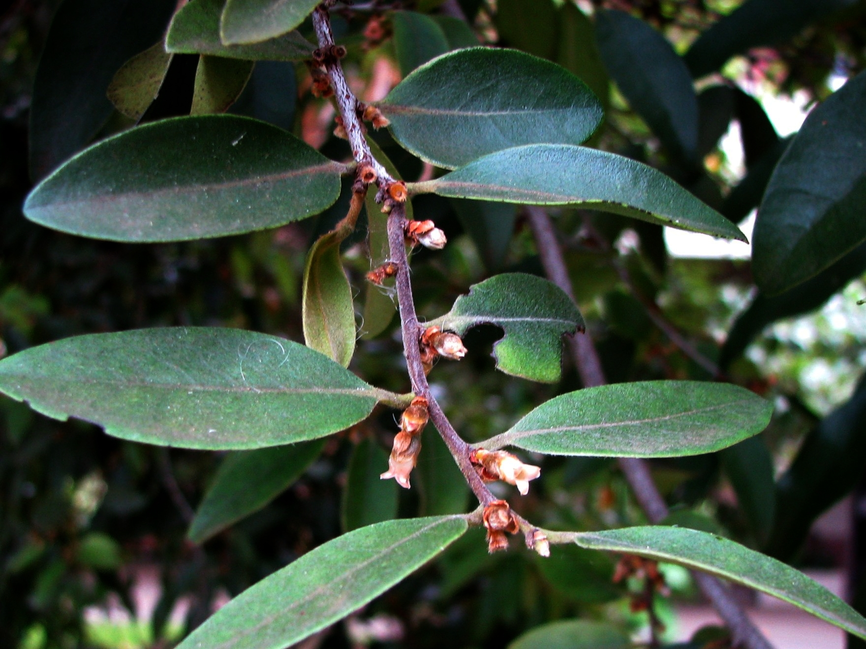 Lama or Ēlama Ebenaceae Endemic to the Hawaiian Islands Oʻahu (Cultivated) NPH00010